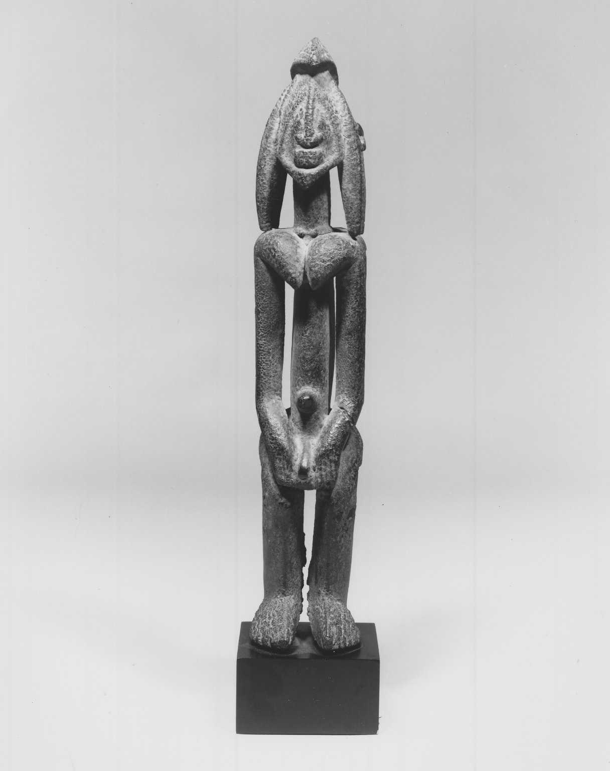 Male figure. Head with pronounced sagittal crest, four incised hair locks, either side of ears, extending to shoulders. Facial features slightly defined; round eyes, arrow shaped nose, pointed chin or beard. Bulbous, pointed breasts, possibly exaggerated shoulders. Arms extend straight down from shoulders, hands placed at each side of men's genitals; pointed prtruding navel. Rounded protruding buttocks with thick cylindrical legs ending in blocky feet. CONDITION: Crack on right side of head, left wrist, buttocks.